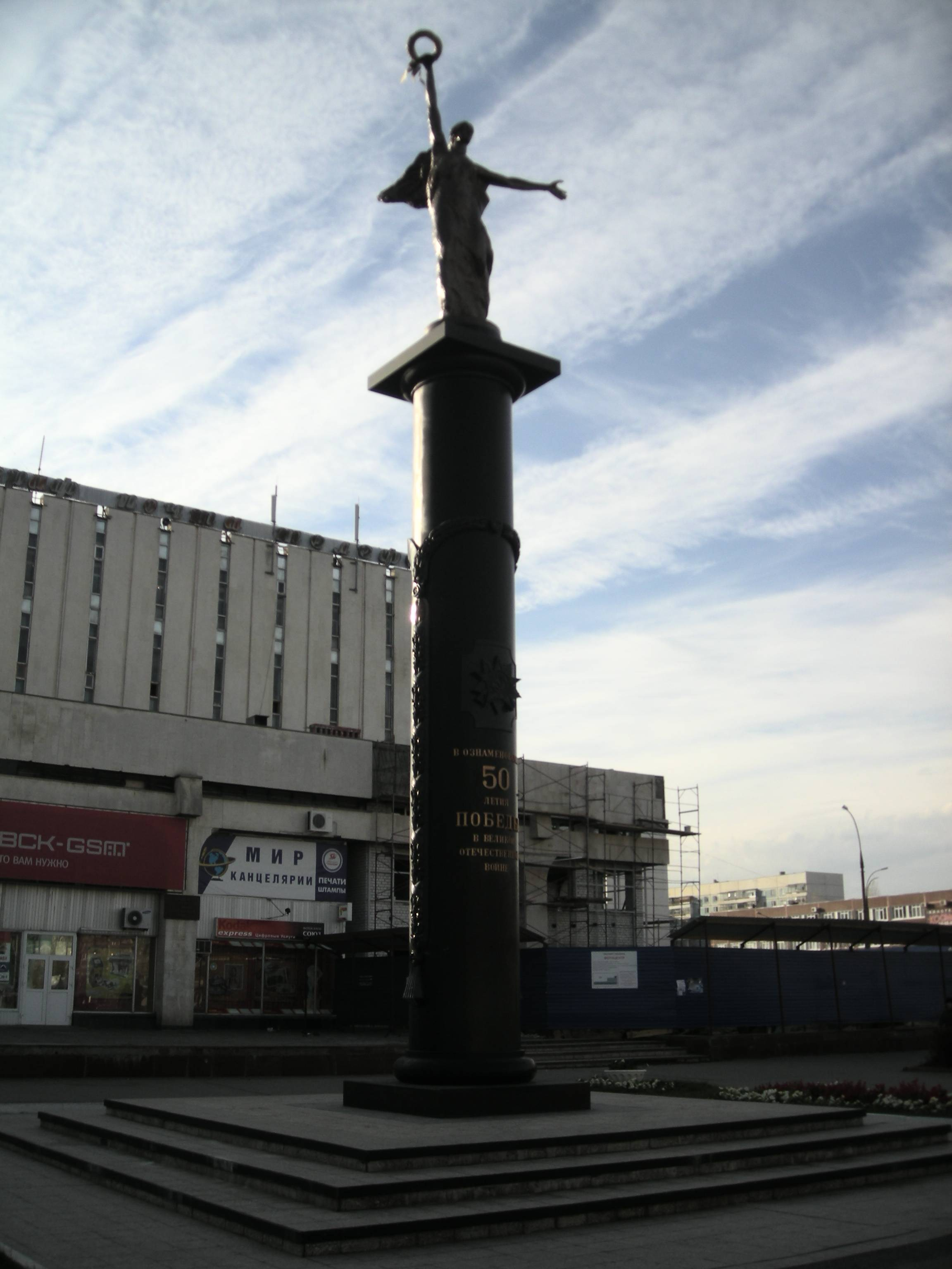 Monument in Honour of 50 years of Victory